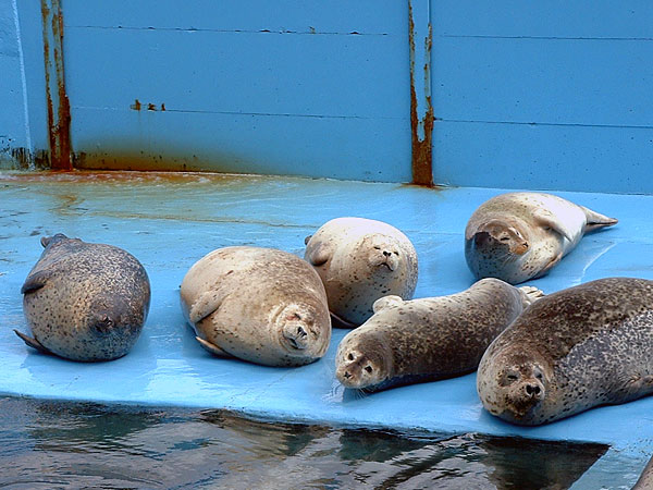 Okhotsk Aquarium , Spotted seal